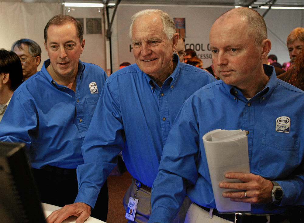 From 2006, Intel executives, from left, Paul Otellini, president and CEO, Craig Barrett, chairman, and Sean Maloney, executive vice president and chief sales and marketing officer. They are viewing a demonstration of the then-new Intel Core2 Duo processor.